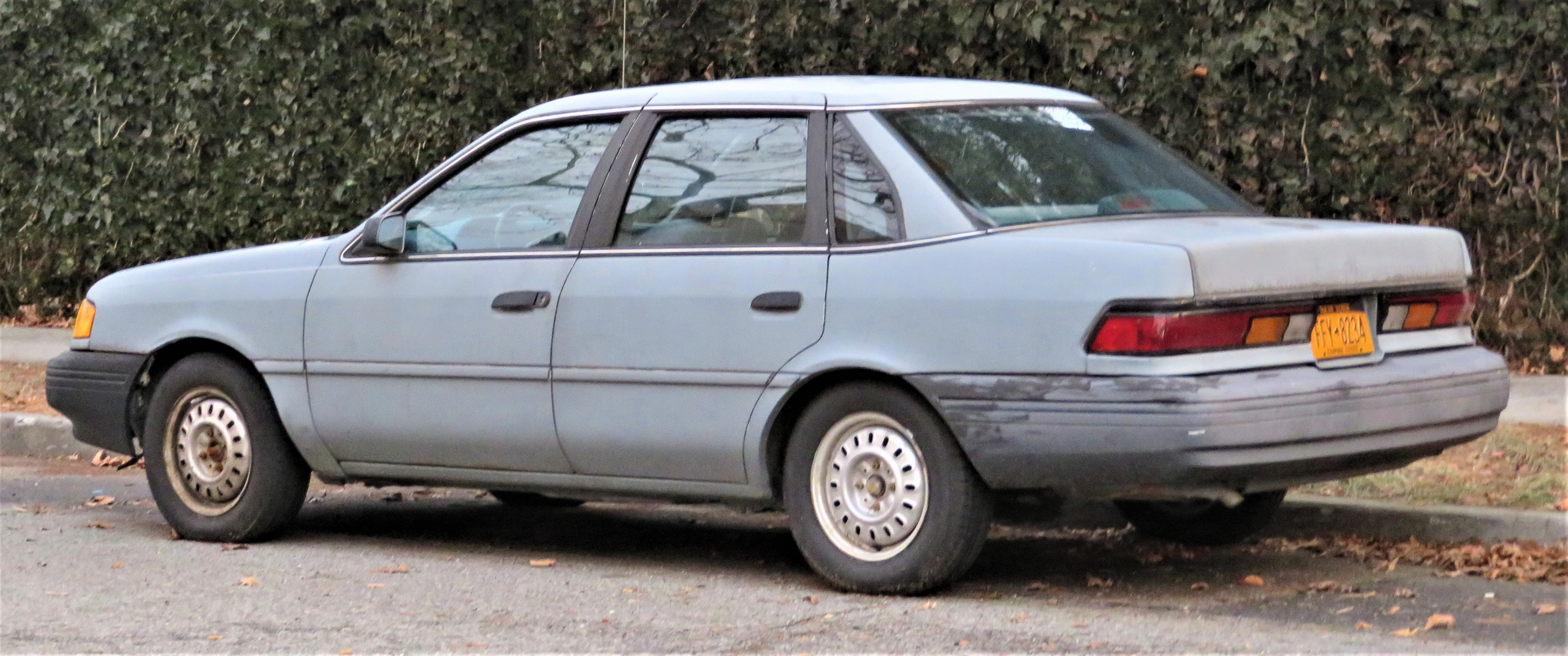 In Queens, New York